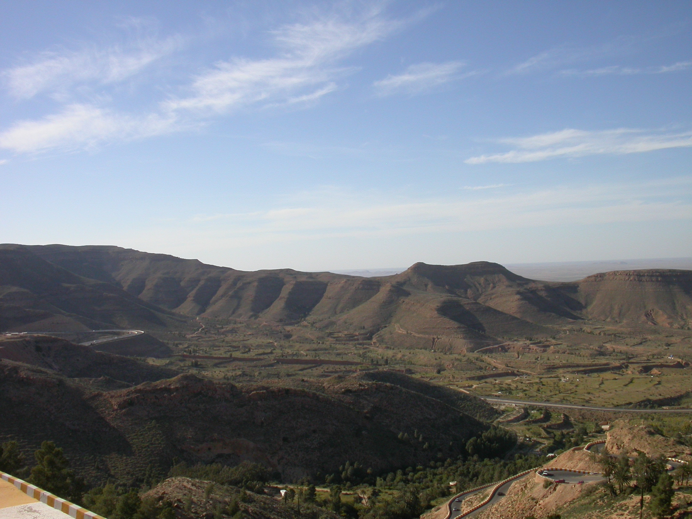 The breath-taking views from Gharyan-Libya. (WT-shared) Antmon 10:52, 10 October 2008 (EDT).